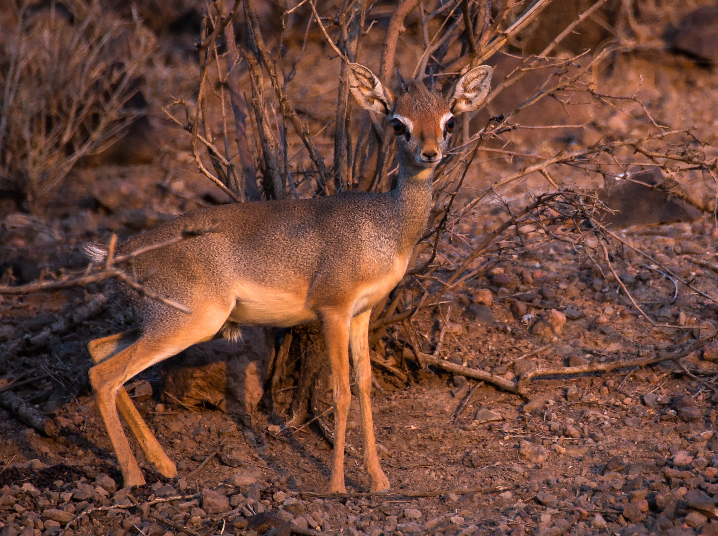 Salt's dik-dik